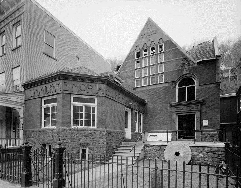 Dimmick Memorial Library, Jim Thorpe, Carbon County, Pennsylvania (1889), Thomas Roney Williamson, architect. This photo was taken soon after the December 13, 1979 fire.